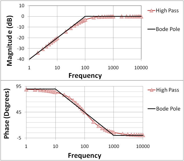 Bode plots for high pass filter